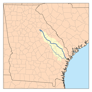 This is a map of the Ogeechee river watershed. The Ogeechee's largest tributary, the Canoochee is also shown. I, Karl Musser, created it based on USGS data.